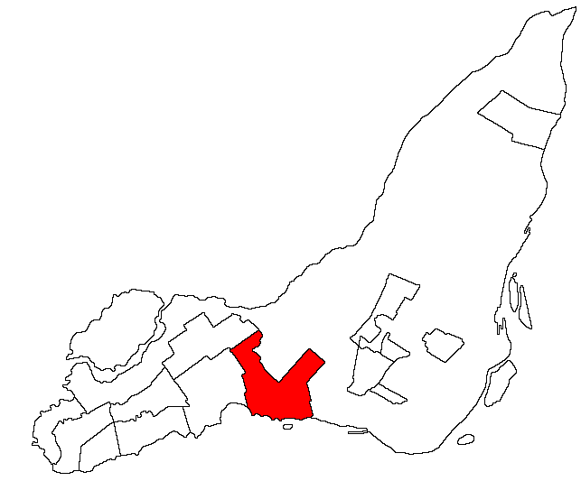 Map of Dorval on the Isle of Montreal